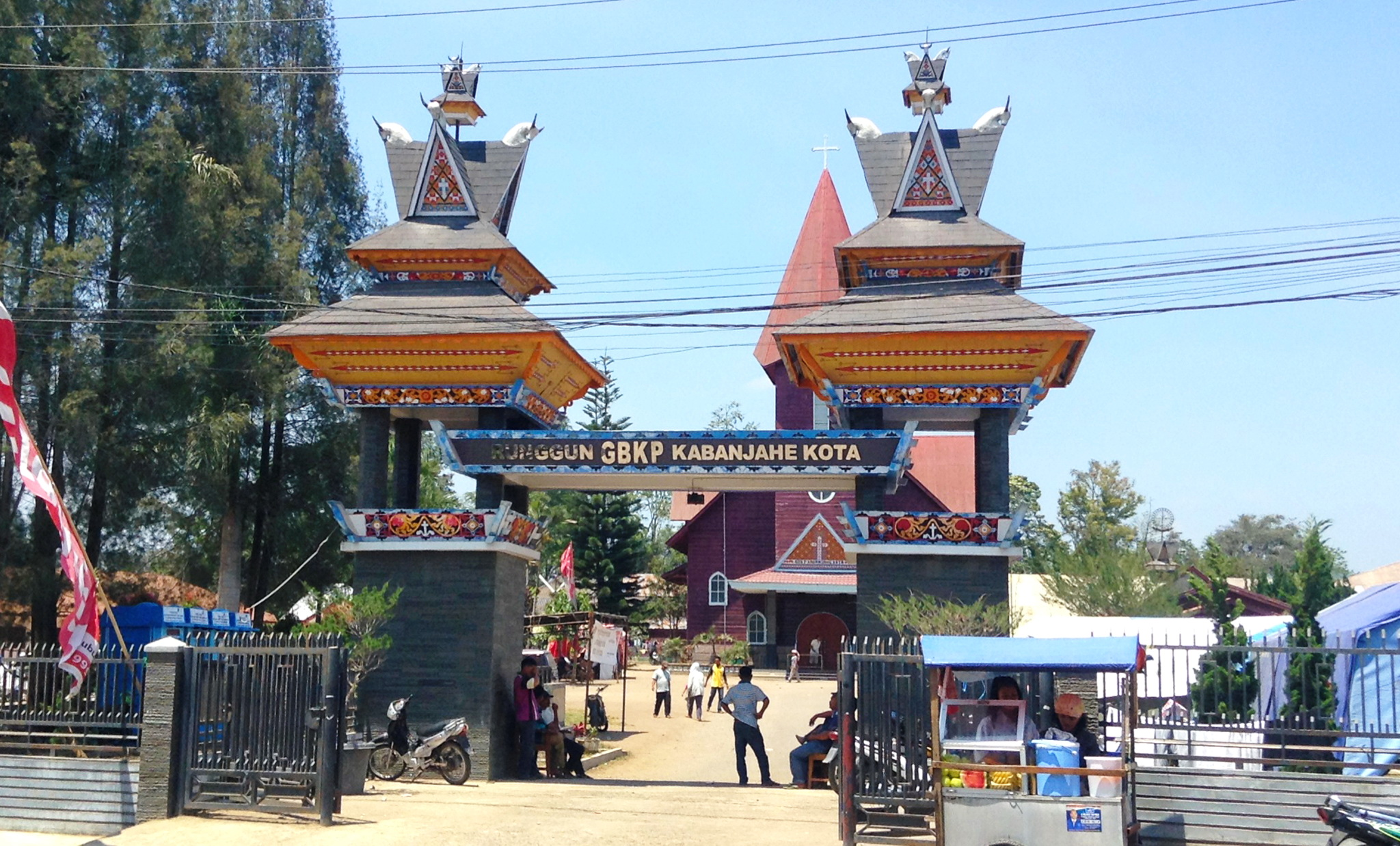 GBKP Rg. Kabanjahe Kota, Klasis Kabanjahe, Church in Kabanjahe, Karo